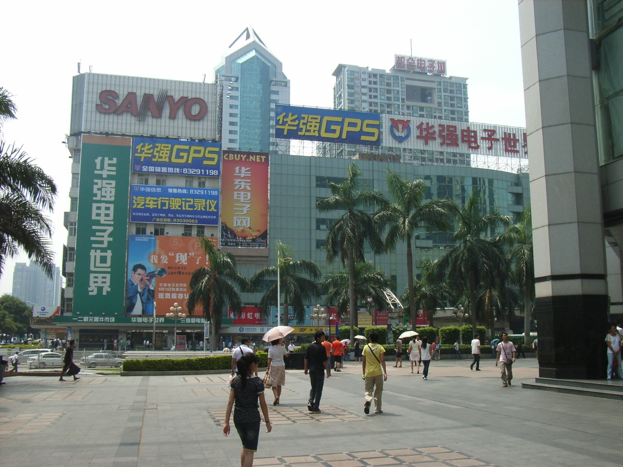 深圳地鐵 沿線各站風景Shenzhen, China (Author is SAMZ).